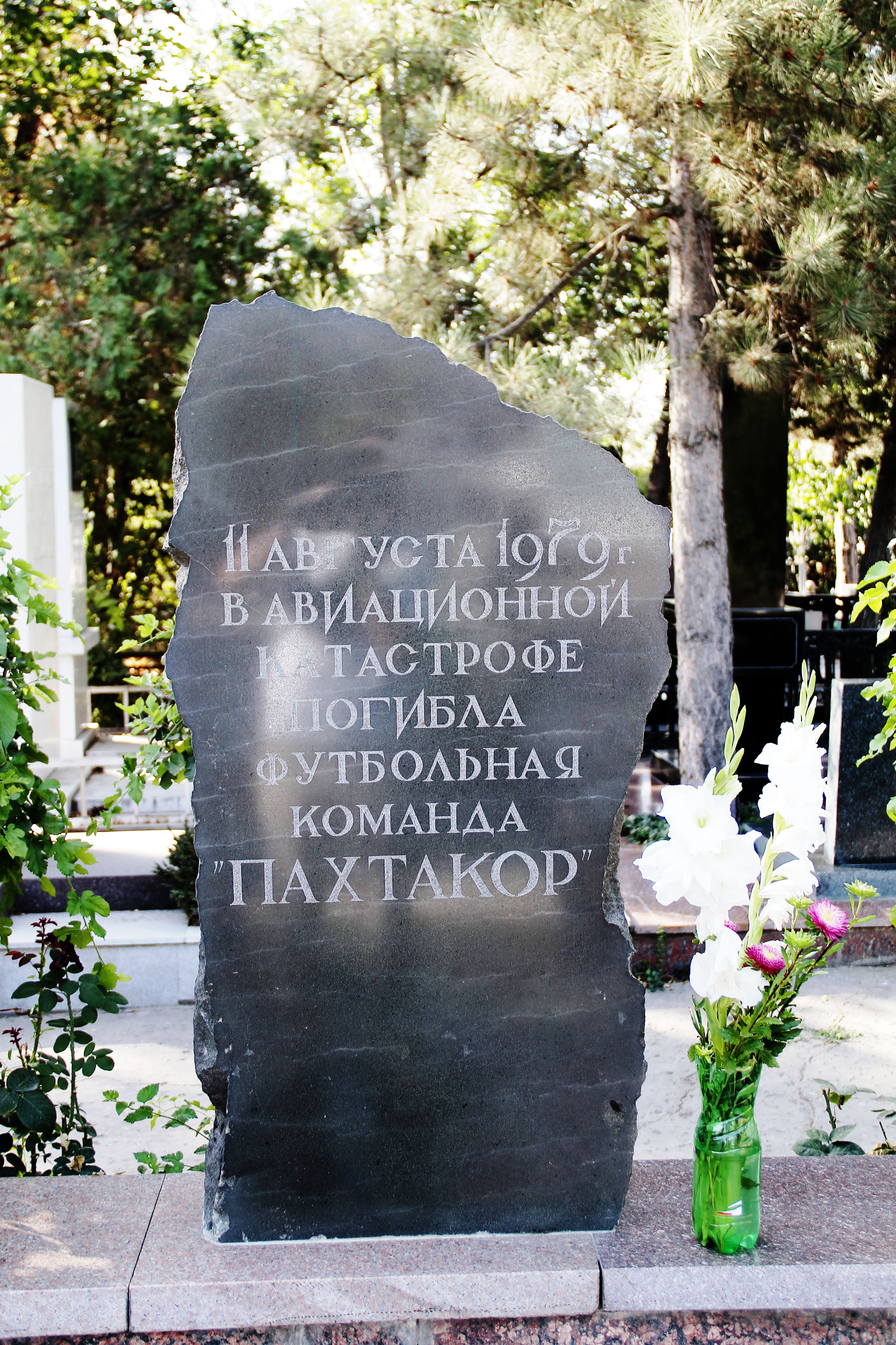 Pakhtakor Football Club team memorial stone